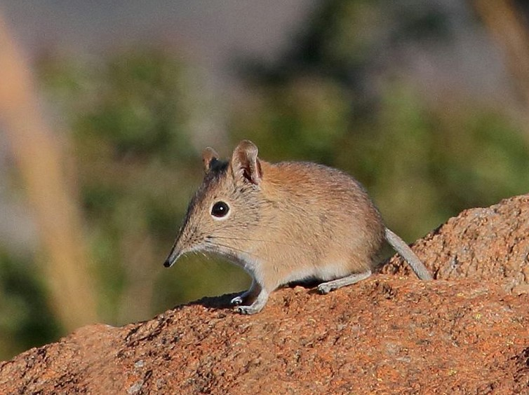 Magaliesberg at Nooitgedacht, Hekpoort - South Africa